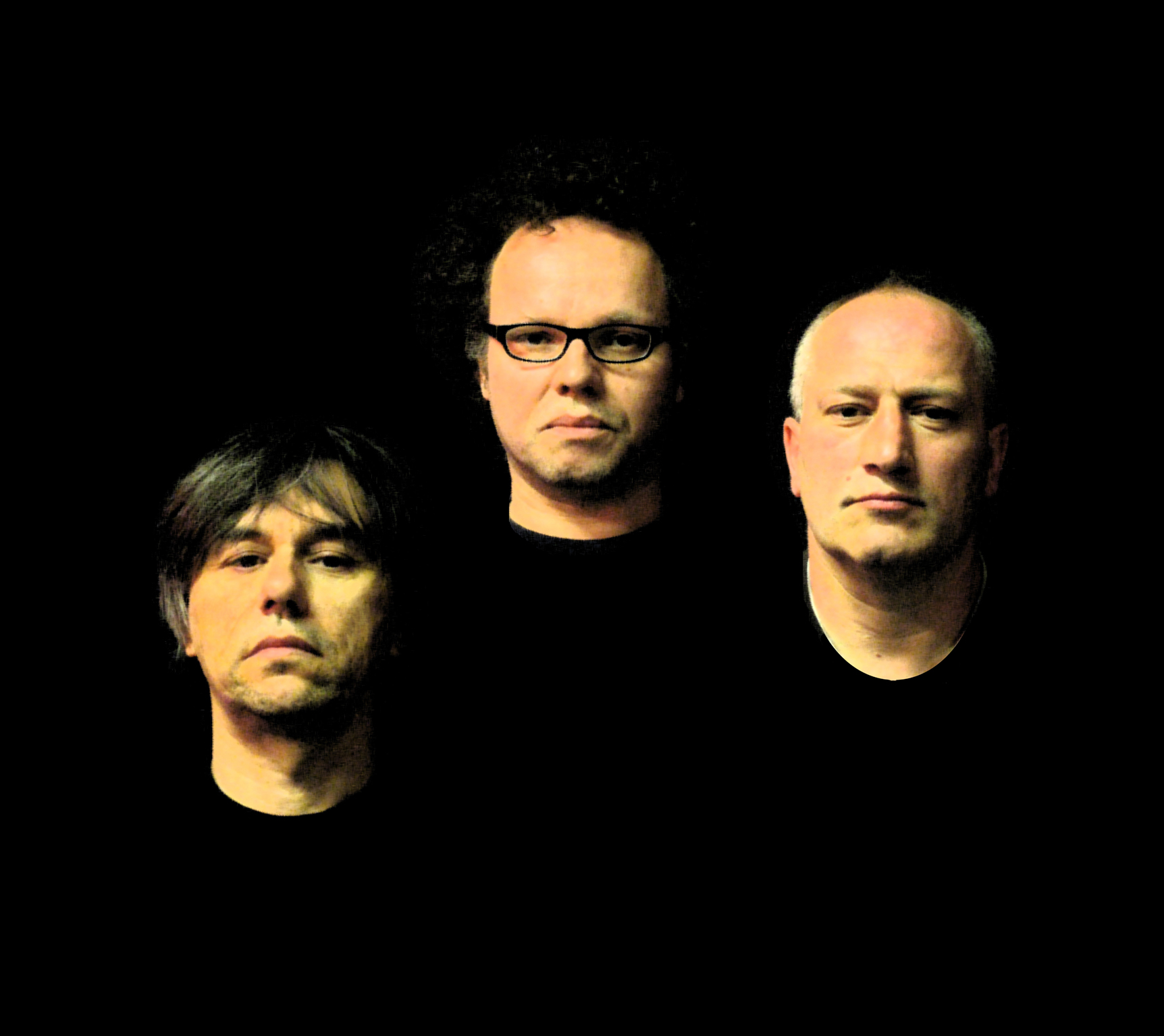 Photo of current lineup of German Rockband Schwefel from Mannheim. From left to right: Norbert Schwefel, Thomas Hinkel, Thomas Nelliste